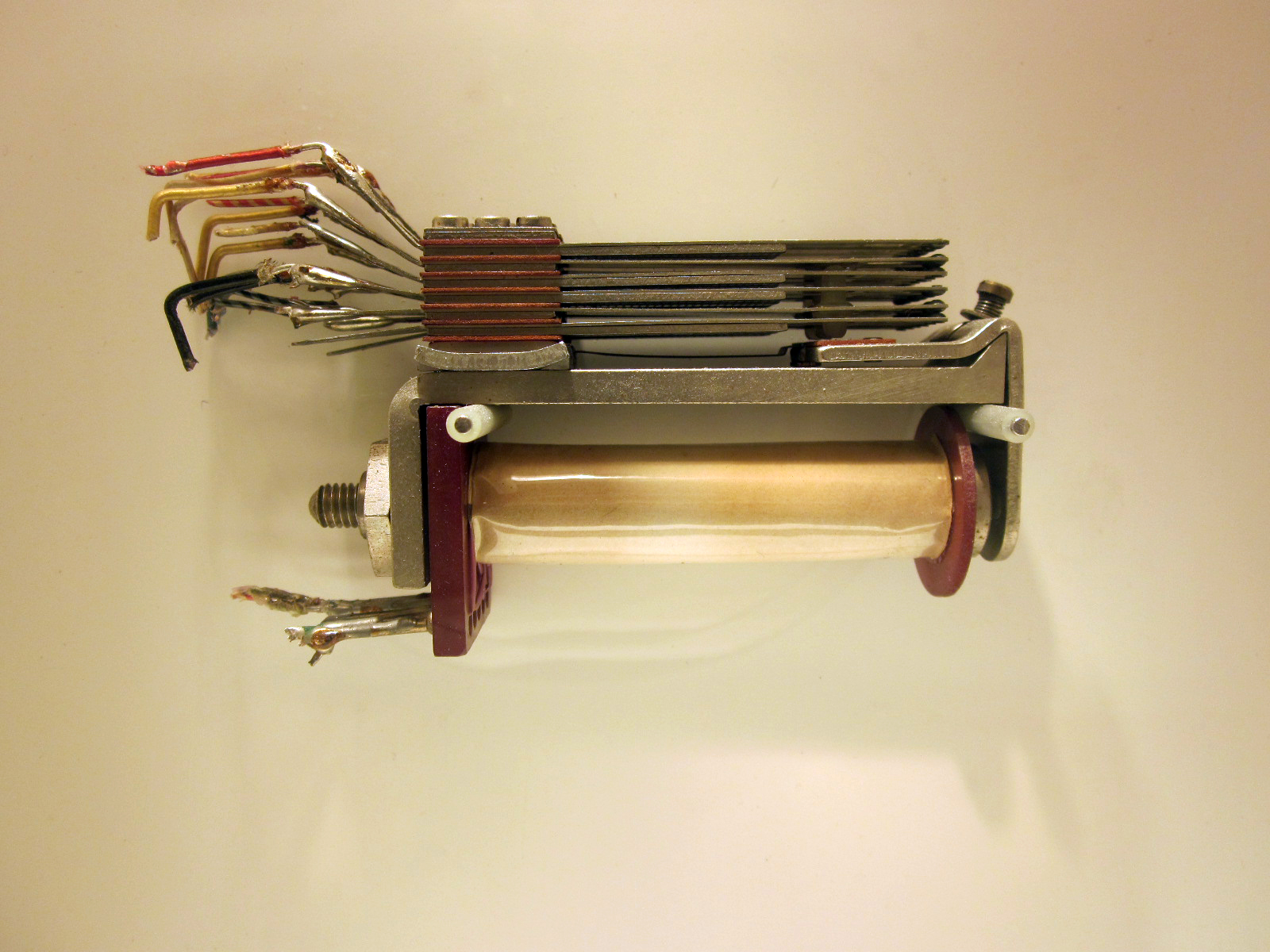 Electromagnetic memory (relays) Included in the computers of the Zuse KG from type Z3, Z5 and Z11 at 1940/1950 years